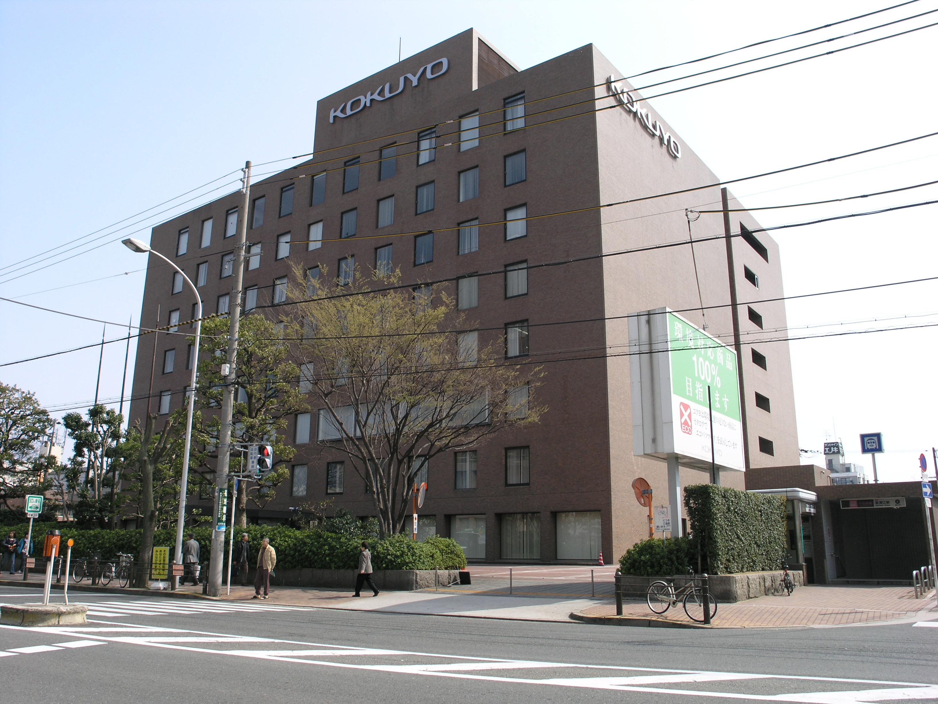 Headquarters of KOKUYO Co.,Ltd. in Higashinari-ku, Osaka, Japan